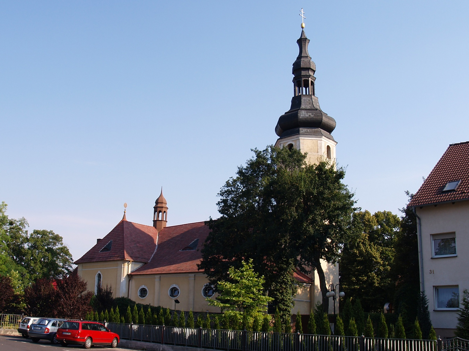 Assumption church at Krapkowice-Otmęt